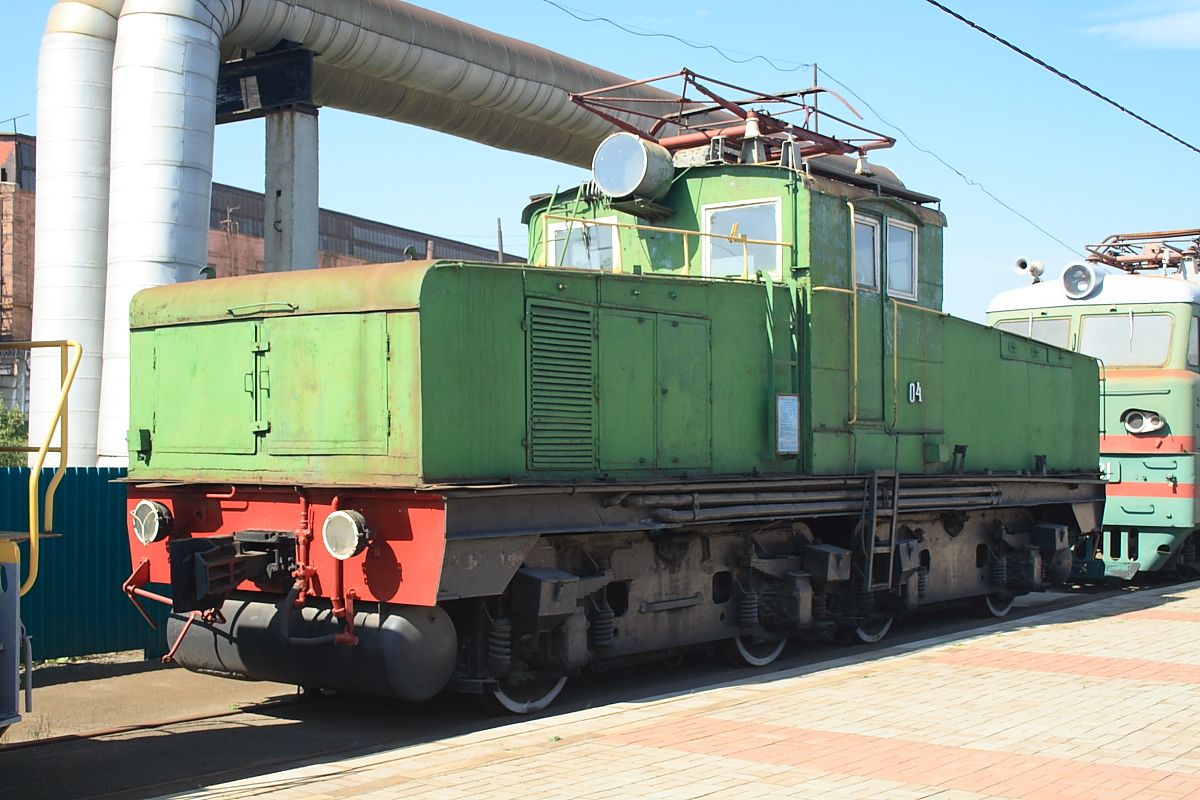 Industrial electric locomotive V ("В") series.